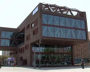 Expo 2010 Hamburg House